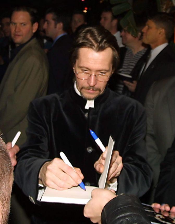 Oldman signing autographs at the Harry Potter premiere, 2007.